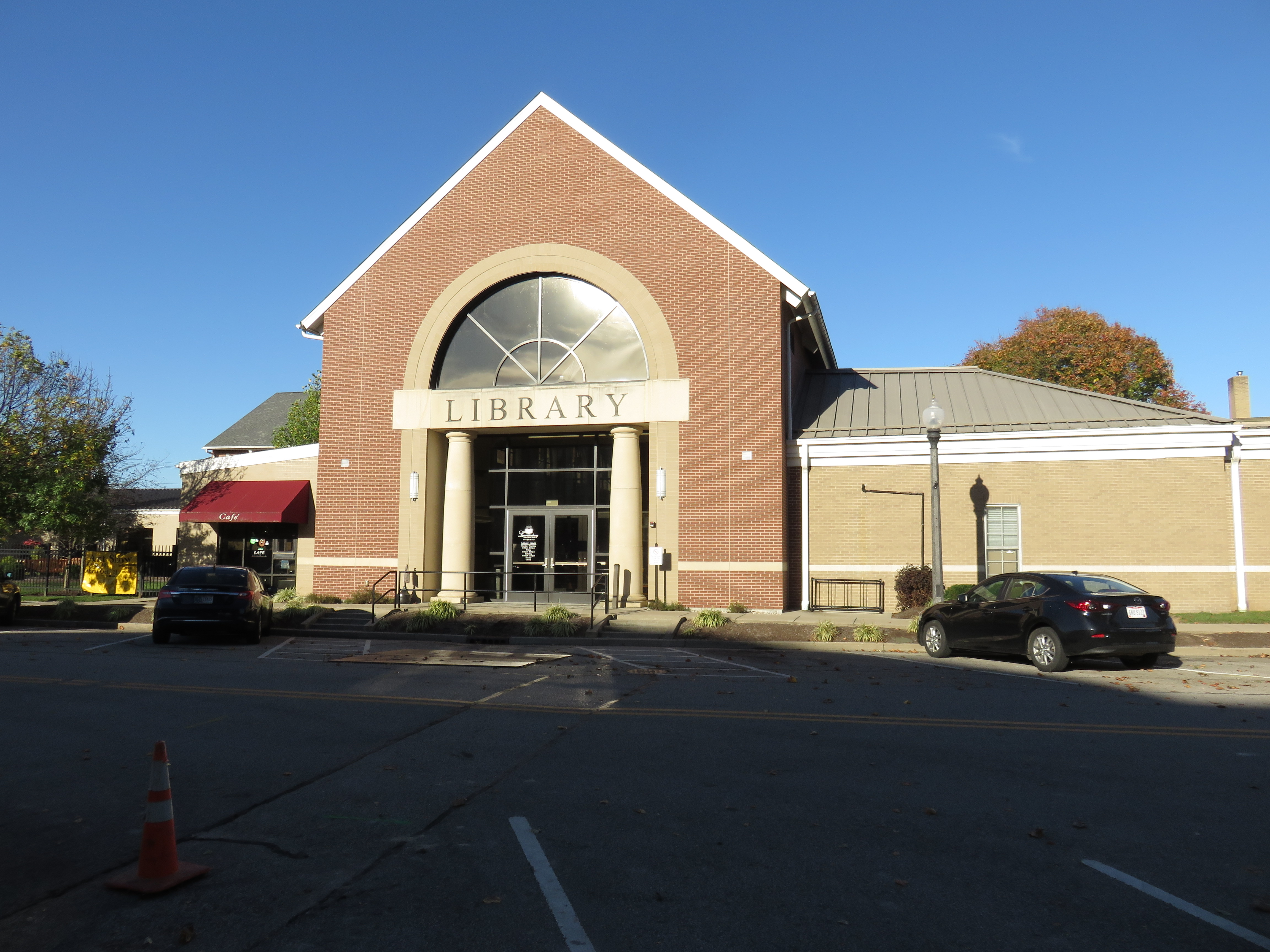 Lawrenceburg Public Library in Lawrenceburg, Indiana in 2017